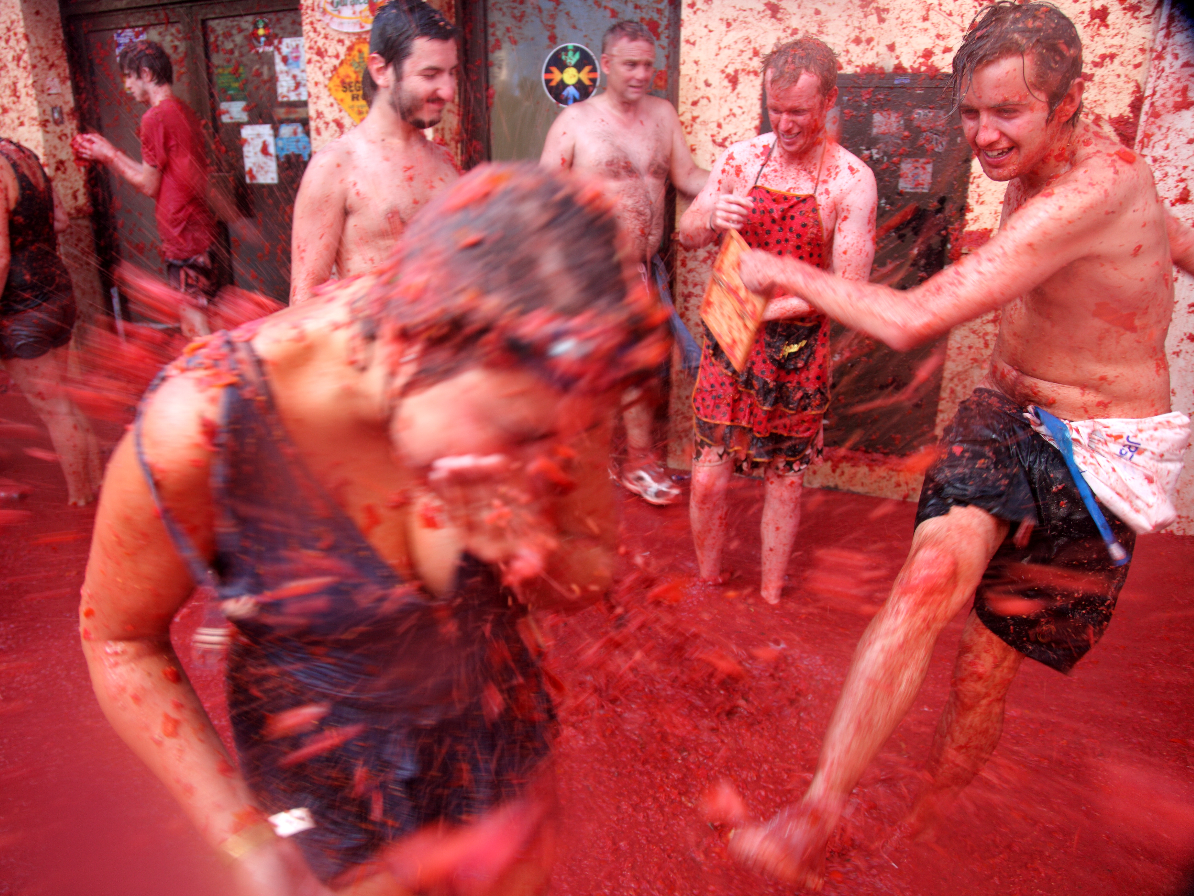 La Tomatina is a food fight festival held on the last Wednesday of August each year in the town of Buñol in the Valencia region of Spain. Tens of metric tons of over-ripe tomatoes are thrown in the streets in exactly one hour. Approximately 20,000–50,000 tourists come to find out more about the tomato fight, multiply by several times Buñol's normal population of slightly over 9,000. There is limited accommodation for people who come to La Tomatina, and thus many participants stay in Valencia and travel by bus or train to Buñol, about 38 km outside the city. In preparation for the dirty mess that will ensue, shopkeepers use huge plastic covers on their storefronts in order to protect them. They also use about 150,000 (kg) tomatoes, just about 90,000 pounds (